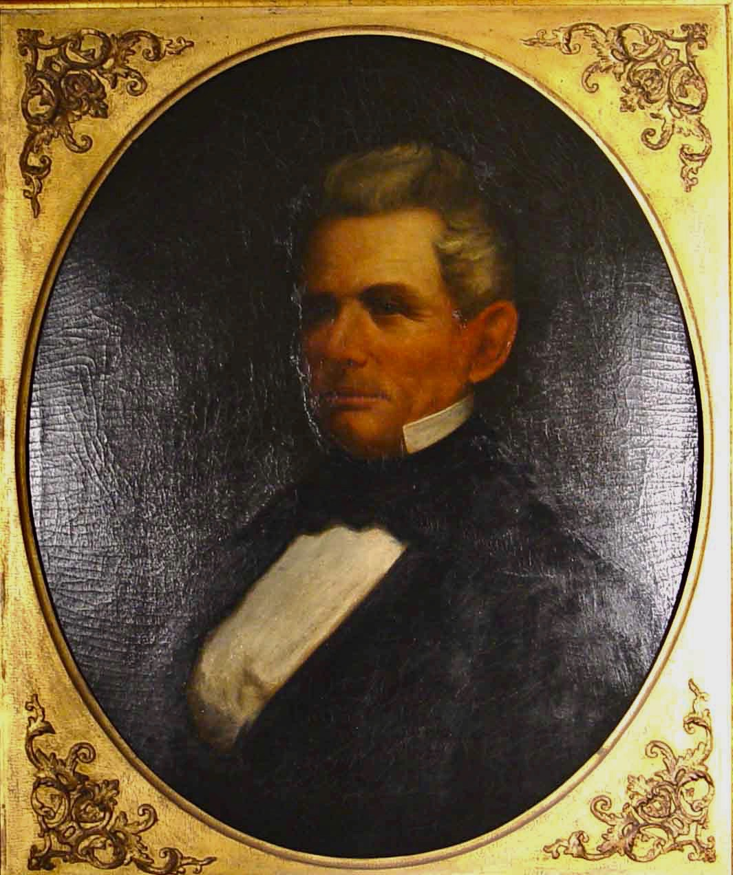 Andrew Barry Moore (1807–1873), governor of Alabama (1857–61) and speaker of the Alabama House of Representatives (1843–45)